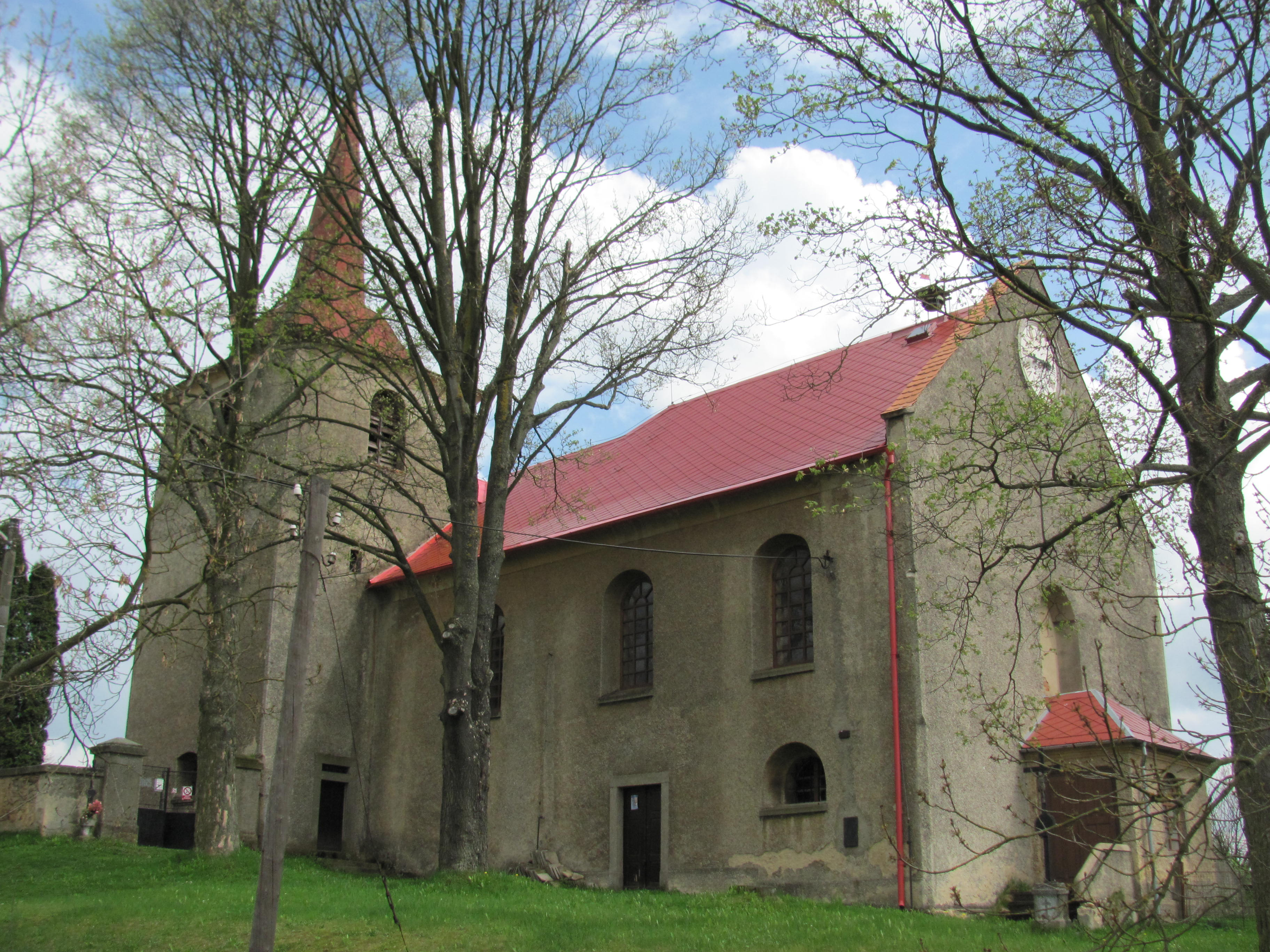 Saint Vitus church in Útvina (Karlovy Vary)